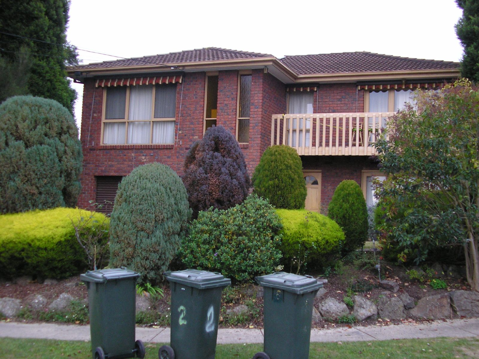 The house where Paul Robinson lives in the Australian soap opera Neighbours.